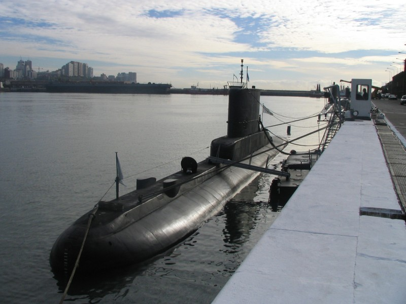 Submarine Type 209 Class (S-31) ARA "Salta" in Base Naval Mar del Plata. On a background two submarines of the TR-1700 project are visible